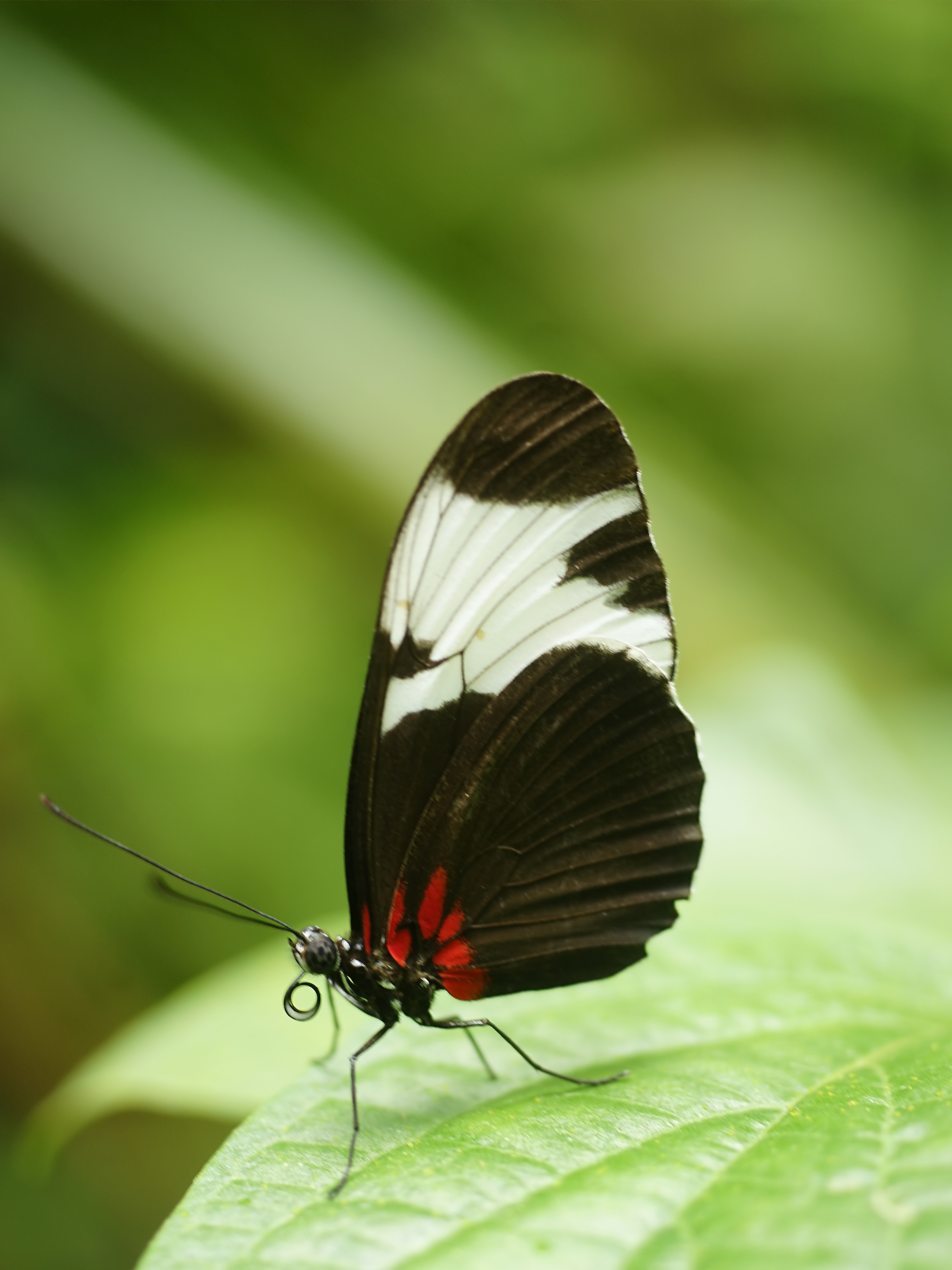 Sapho Longwing near Las Horquetas, Costa Rica. This is subspecies leuce. Charles (talk) 15:48, 31 May 2019 (UTC)